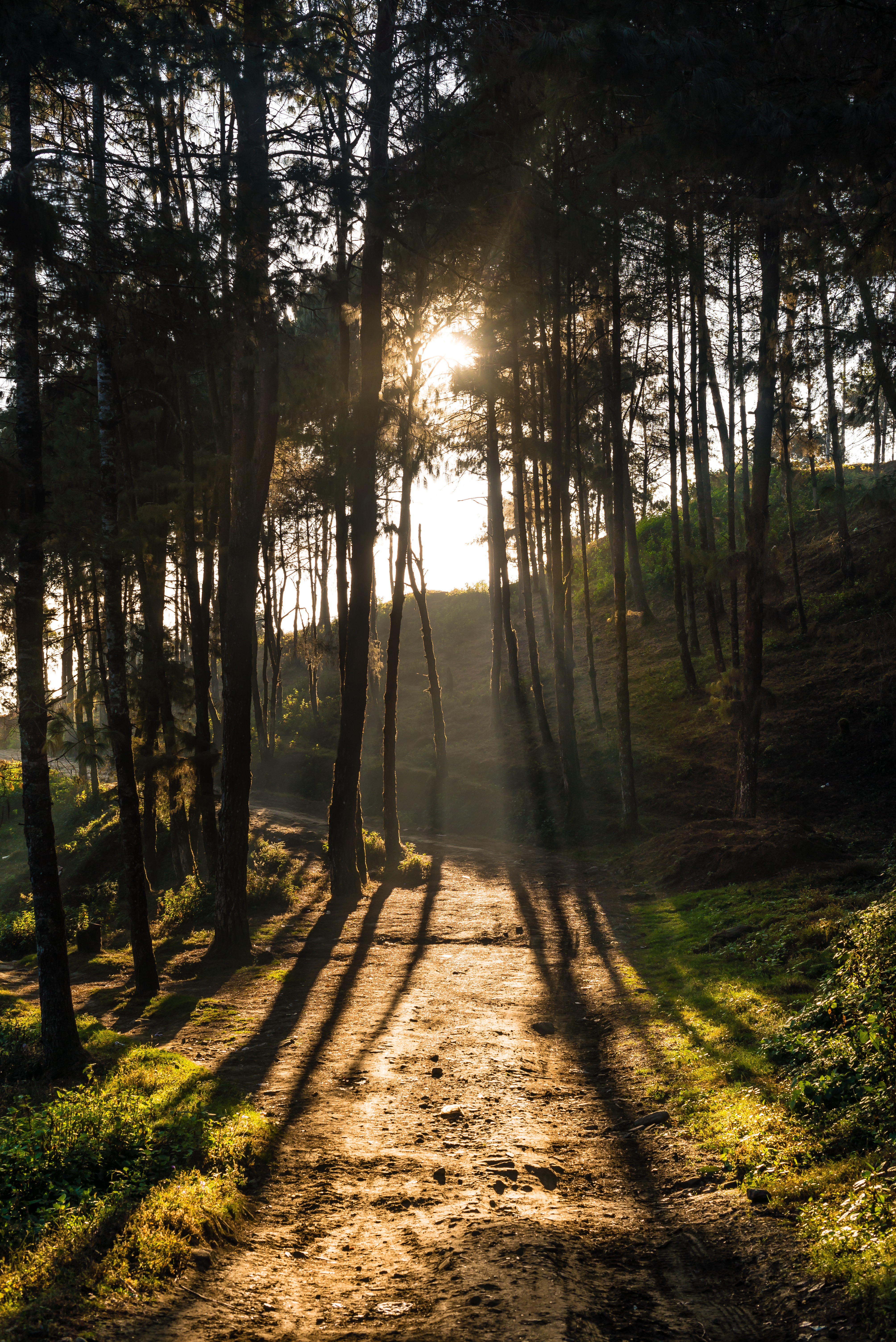 morning sunrise view .. rays come out from trees